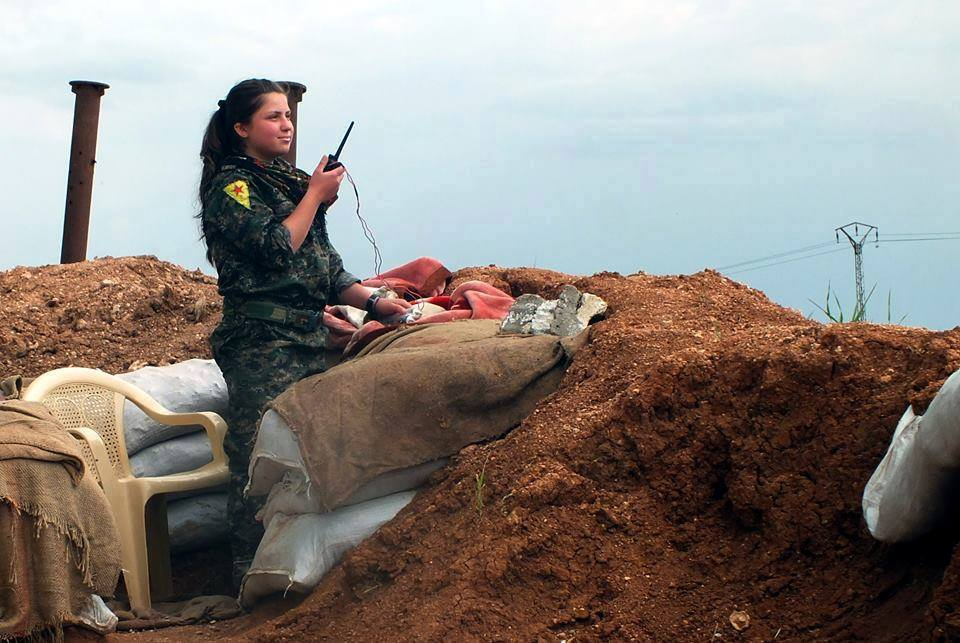 YPG soldier during the fight with ISIL